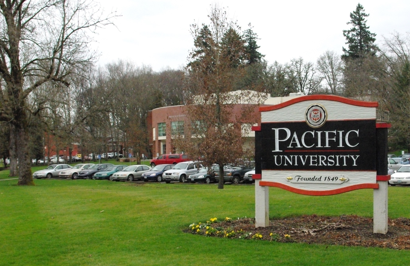 Entrance sign at Pacific University in Forest Grove, Oregon, USA